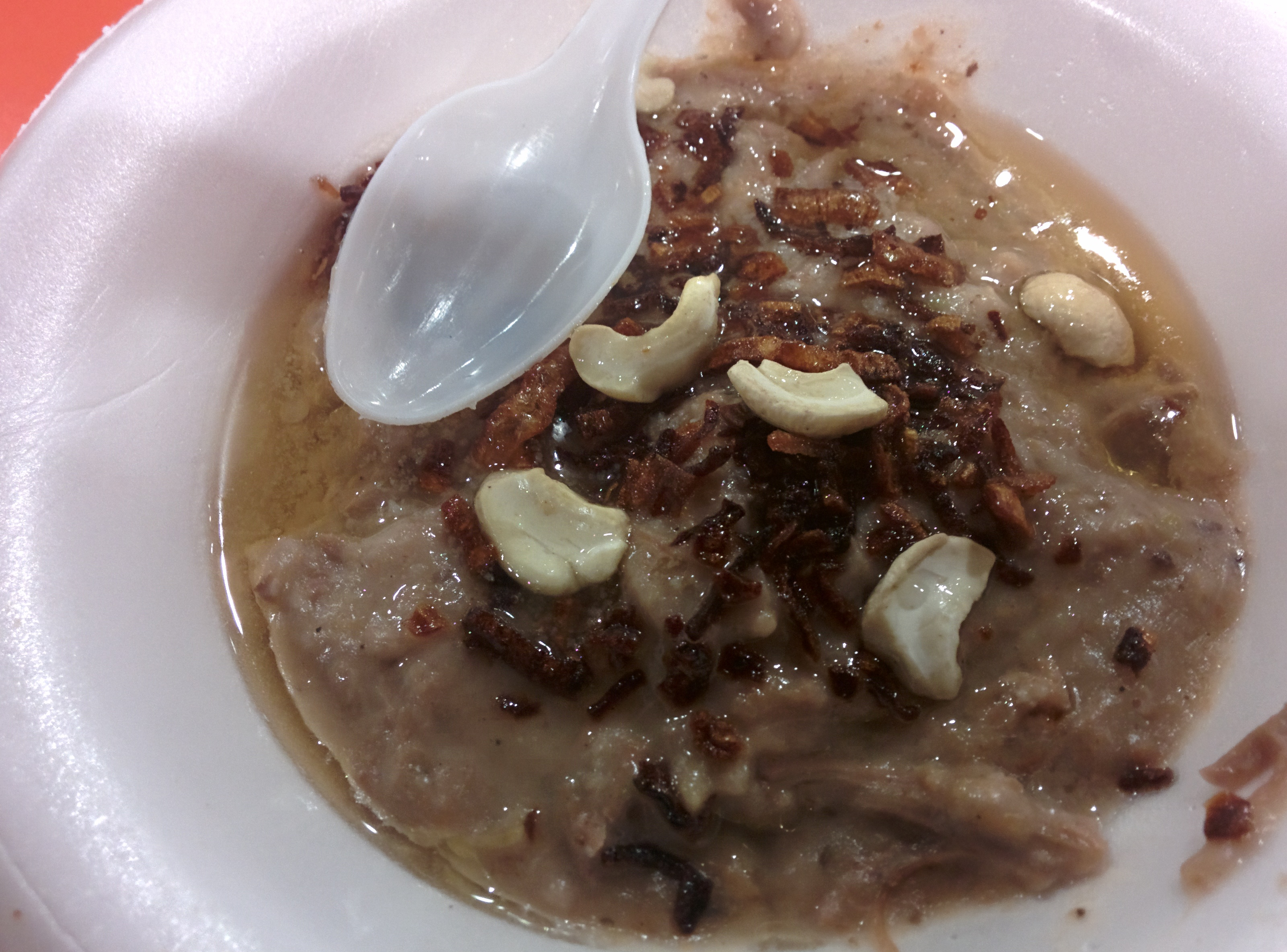 A lip-smacking dish served during Ramadan times.